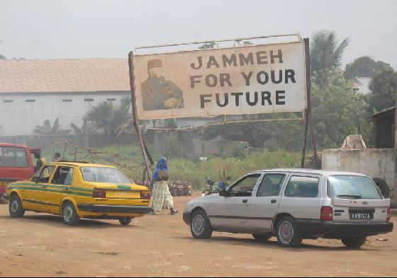 Billboard for the president